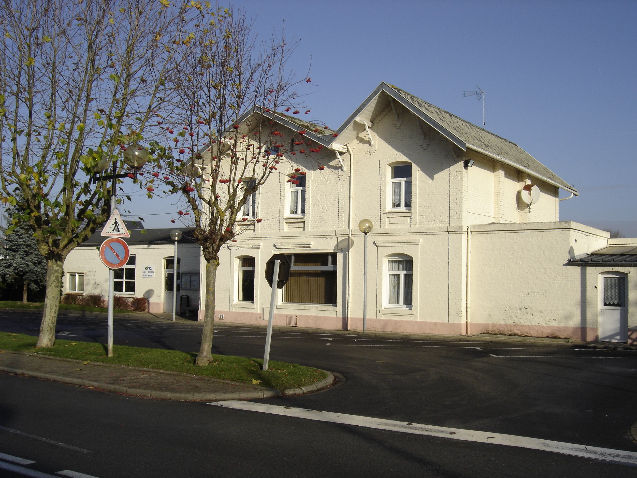 Old railway station of Caudry